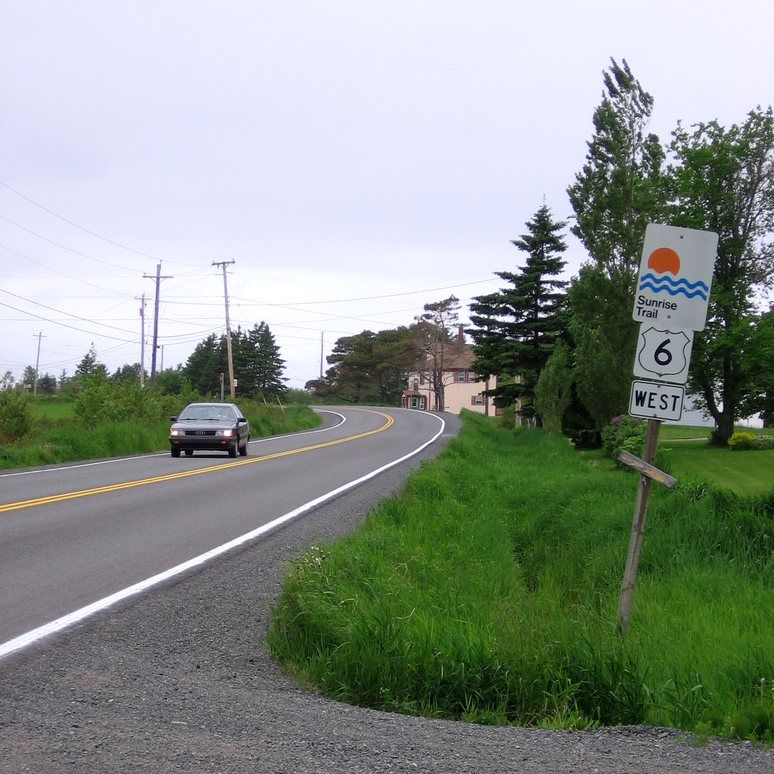 Highway route sign - Route 6, near Toney River, Pictou County, NS